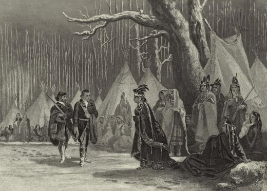 Image Title: Washington and Gist visit Queen Aliquippa. Creator: Rogers, John, ca. 1808-ca. 1888 -- Engraver McNevin, John -- Artist Published Date: 1856 Specific Material Type: Prints Item Physical Description: 1 print : b&w ; 16 x 23 cm. (6 1/2 x 8 3/4 in.) Notes: Printed on border: "New York, Virtue, Yorston & Co." "Entd. according to act of congress in the year 1856 by Virtue, Yorston & Co. in the clerks office of the dist. court of the southern dist. of New York." Source: Mid-Manhattan Picture Collection / Indians -- North America -- Eastern-Northern -- 1700s Source Description: 1 folder (25 pictures) Location: Mid-Manhattan Library / Picture Collection Catalog Call Number: PC INDIA-Nor-E 17 Digital ID: 806893 Record ID: 712308